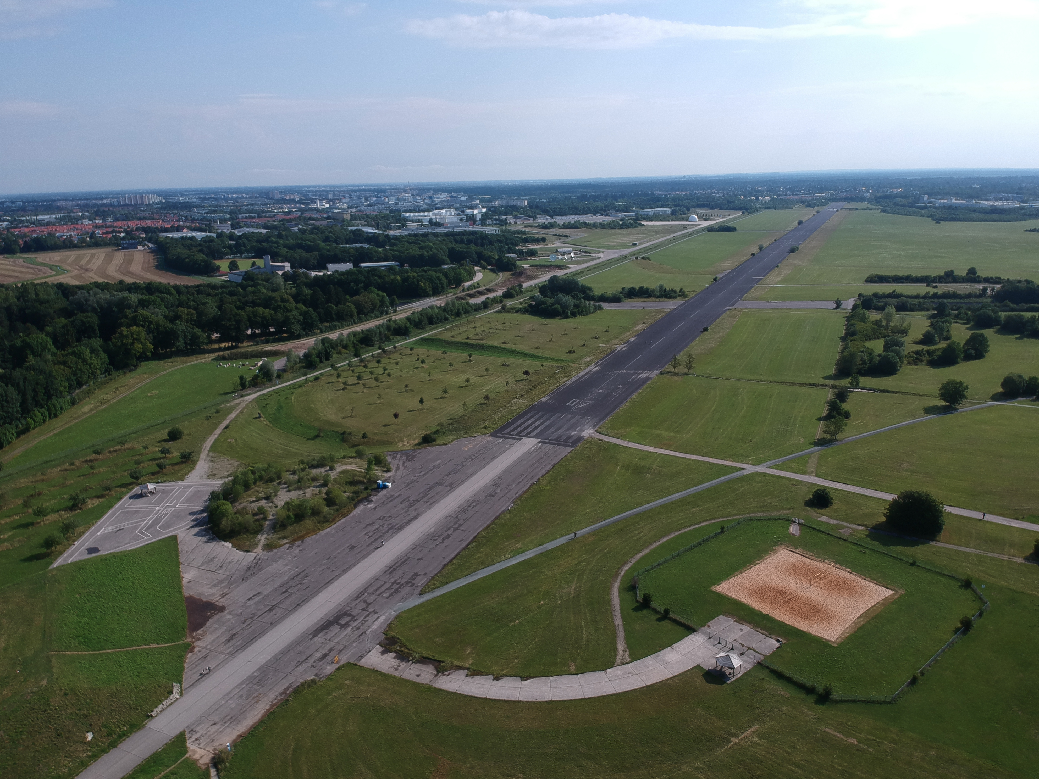 Landschaftspark Hachinger Tal, Unterhaching